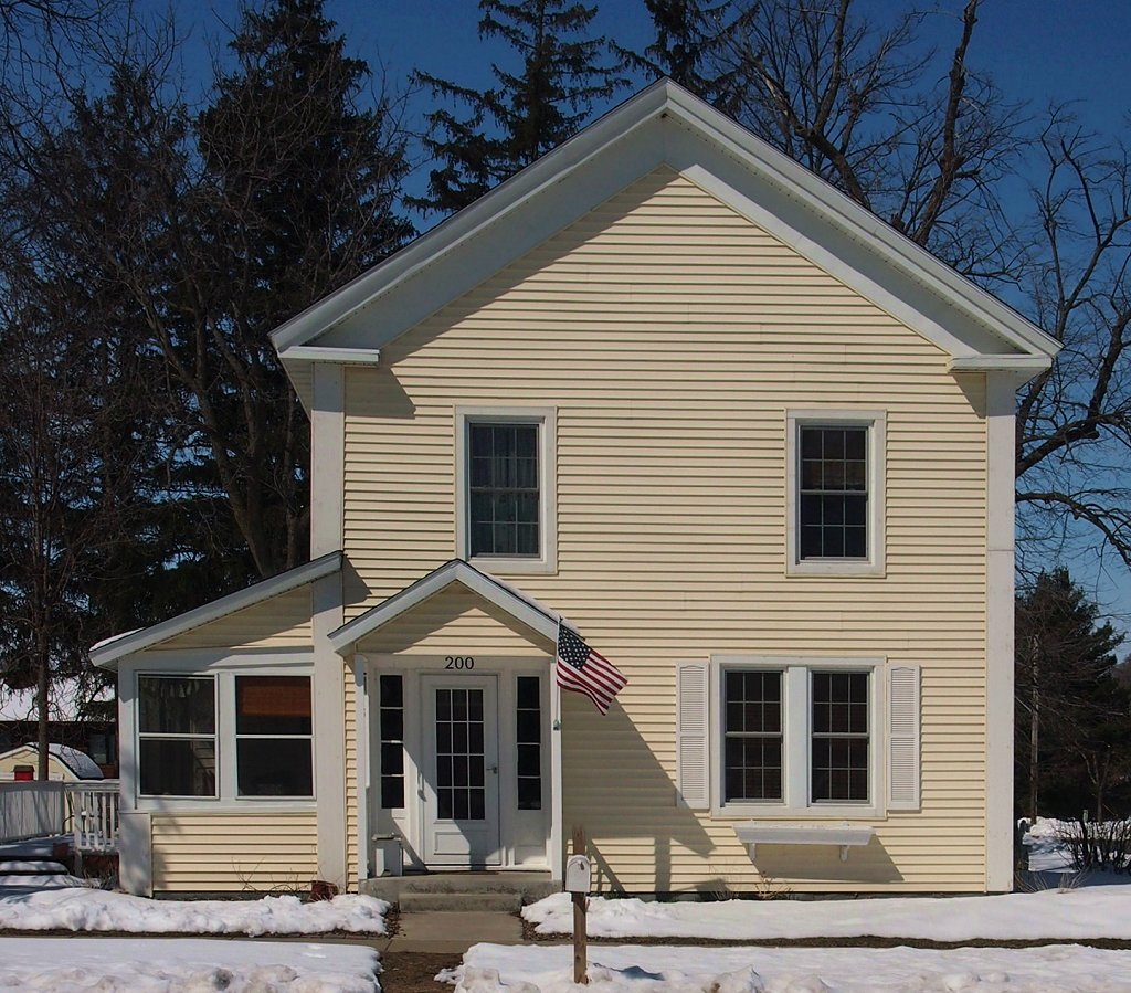 Edward T. Archibald House, 200 2nd St S, Dundas, Minnesota, USA. Viewed from the southeast.